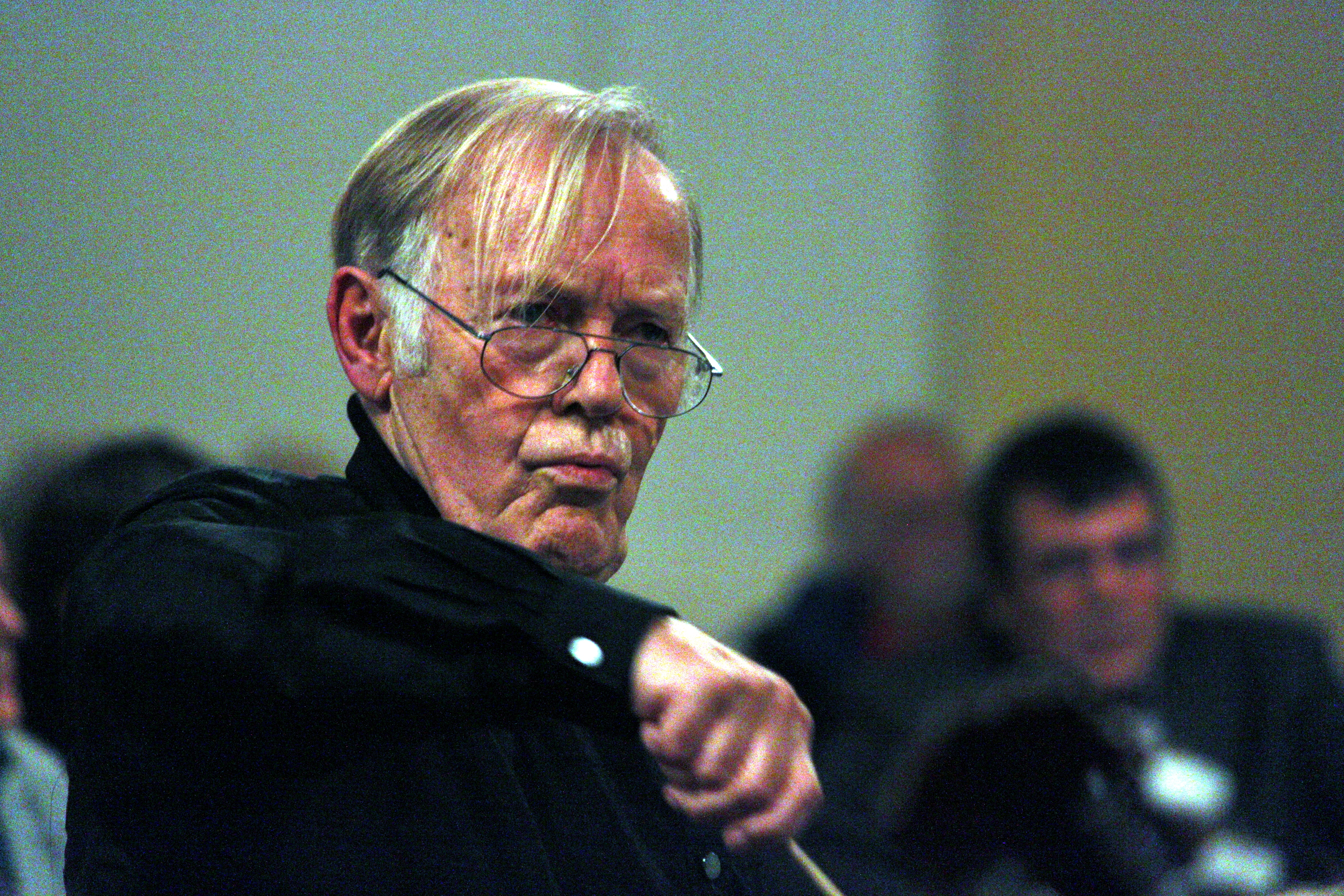 Hartmut Klug conducts the mandolin orchestra of Rhineland-Palatinate